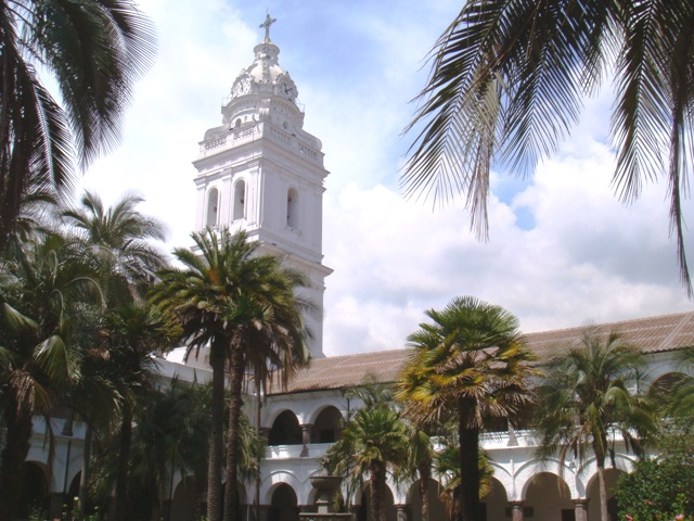 Iglesia y Convento Maximo Santo Domingo de Guzman, Quito.